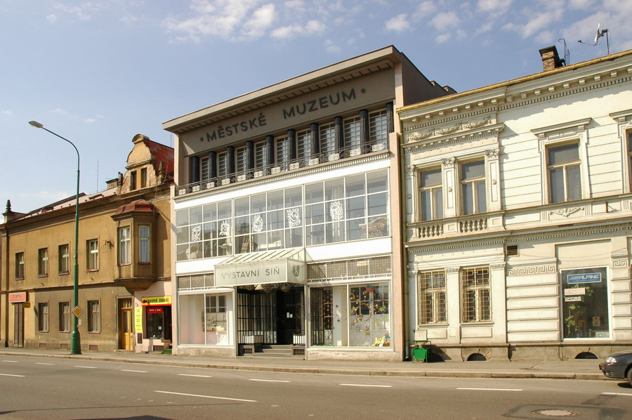 Wenkeův department store in the town of Jaroměř, Czech Republic. Designed by Josef Gočár, it's now a museum